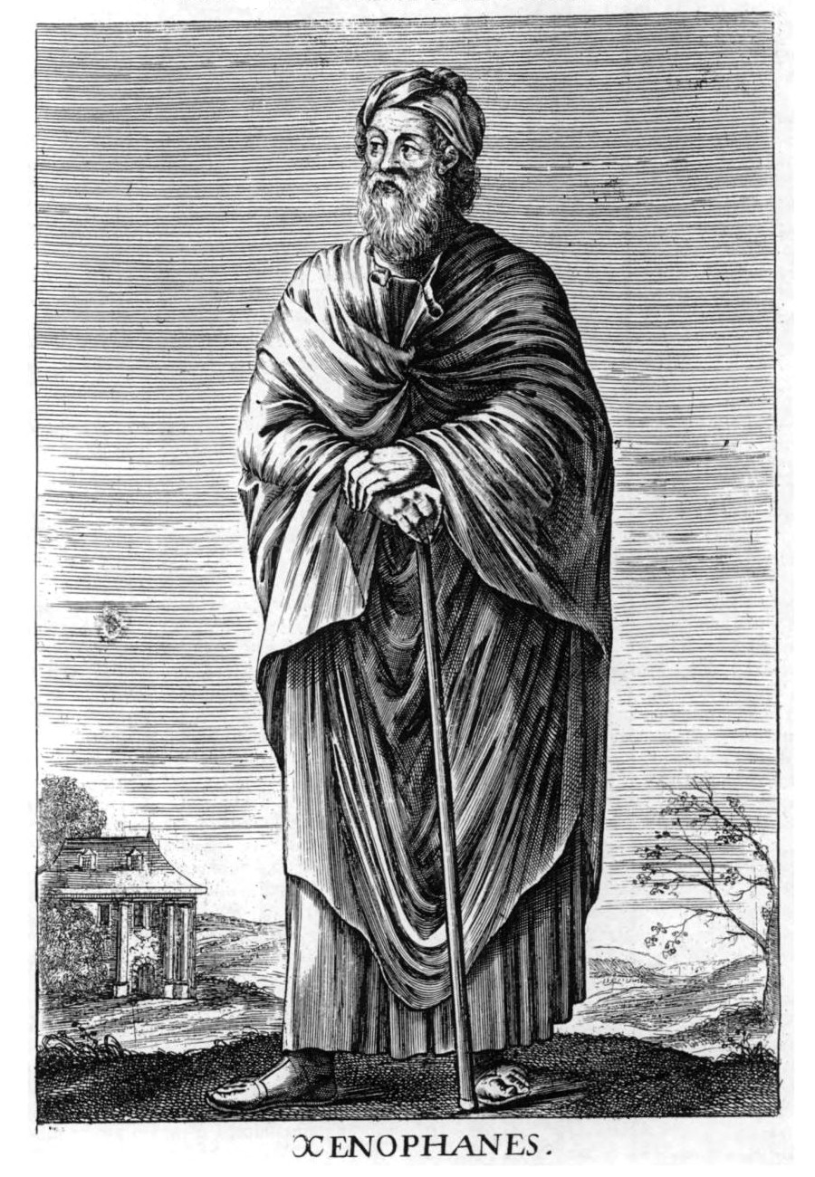 Xenophanes, ancient Greek philosopher. From Thomas Stanley, (1655), The history of philosophy: containing the lives, opinions, actions and Discourses of the Philosophers of every Sect, illustrated with effigies of divers of them.